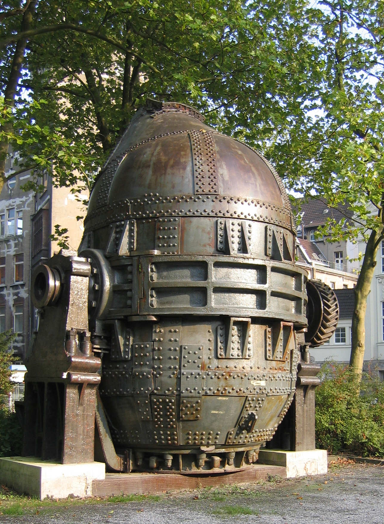 Thomas converter in Dortmund, Germany, built 1954